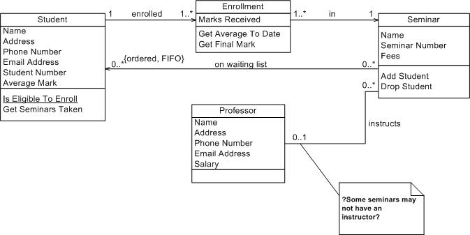 class digram